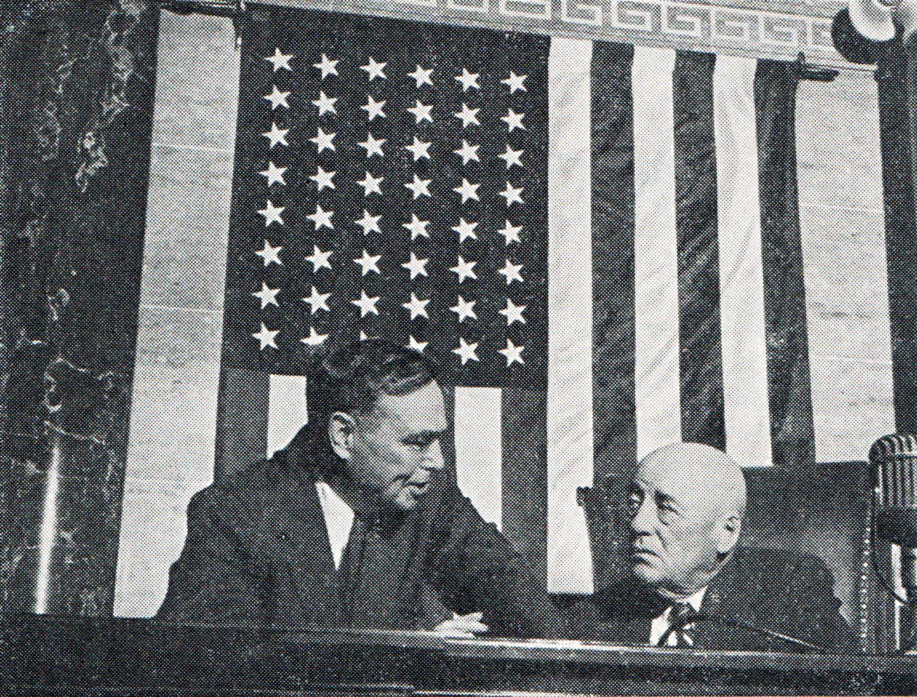 Joseph William Martin Jr. and Sam Rayburn at US Capitol